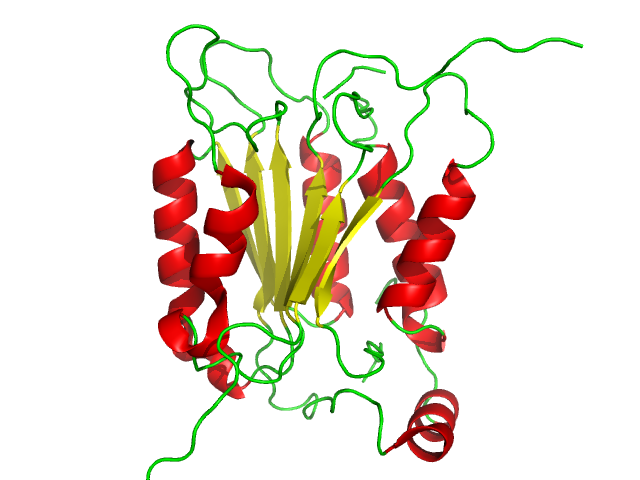 This is a structure of interleucin 1-β converting enzime (caspase 1).